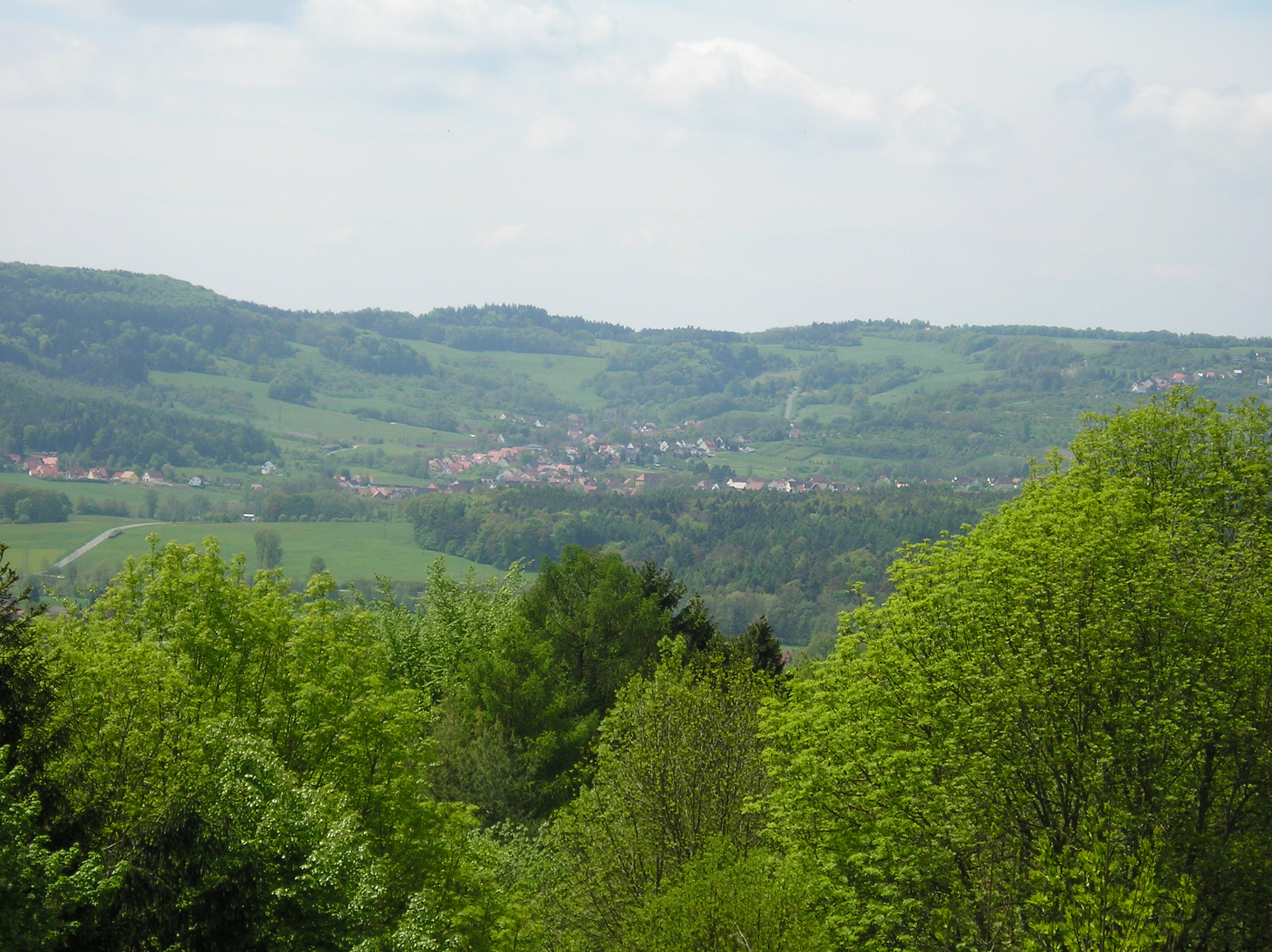 A view from a point next to the village of Kasberg down into the upper Schwabach valley with the "Brand" / "Hetzlas" (mountain) behind. In the middle of the image you can see the two villages Ermreuth and Rödlas (on the image you see them as one village as they're grown together).